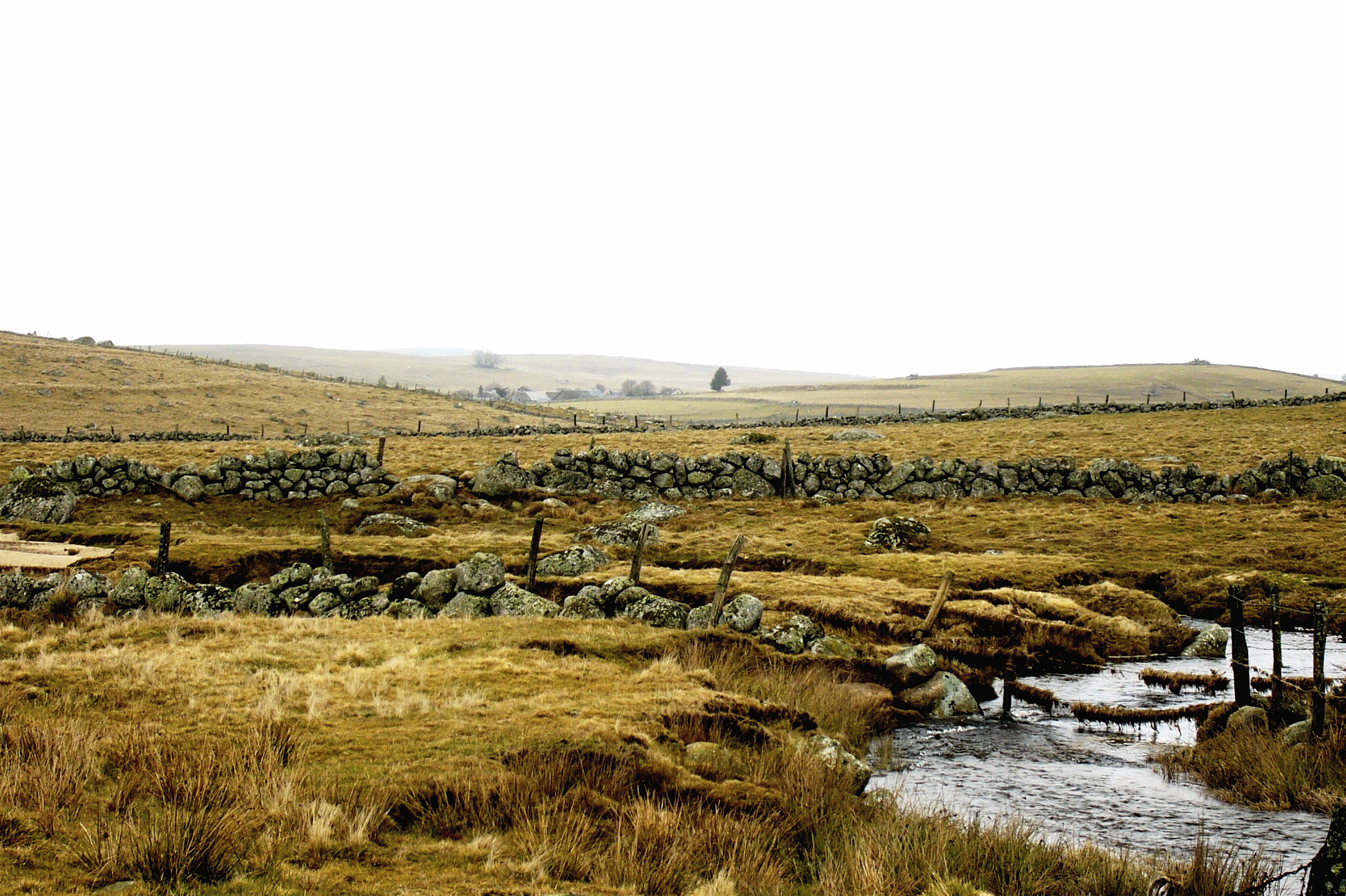 Landscape of Aubrac, France. Picture taken by me (Nouly) on December 19, 2003 in Aubrac, between les quatre chemines and the village of Aubrac.